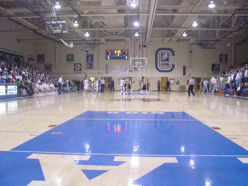 Photo taken during the 2004-2005 Craig High School Girl's Basketball season. The team would go on to lose the game to crosstown rival Parker High School.